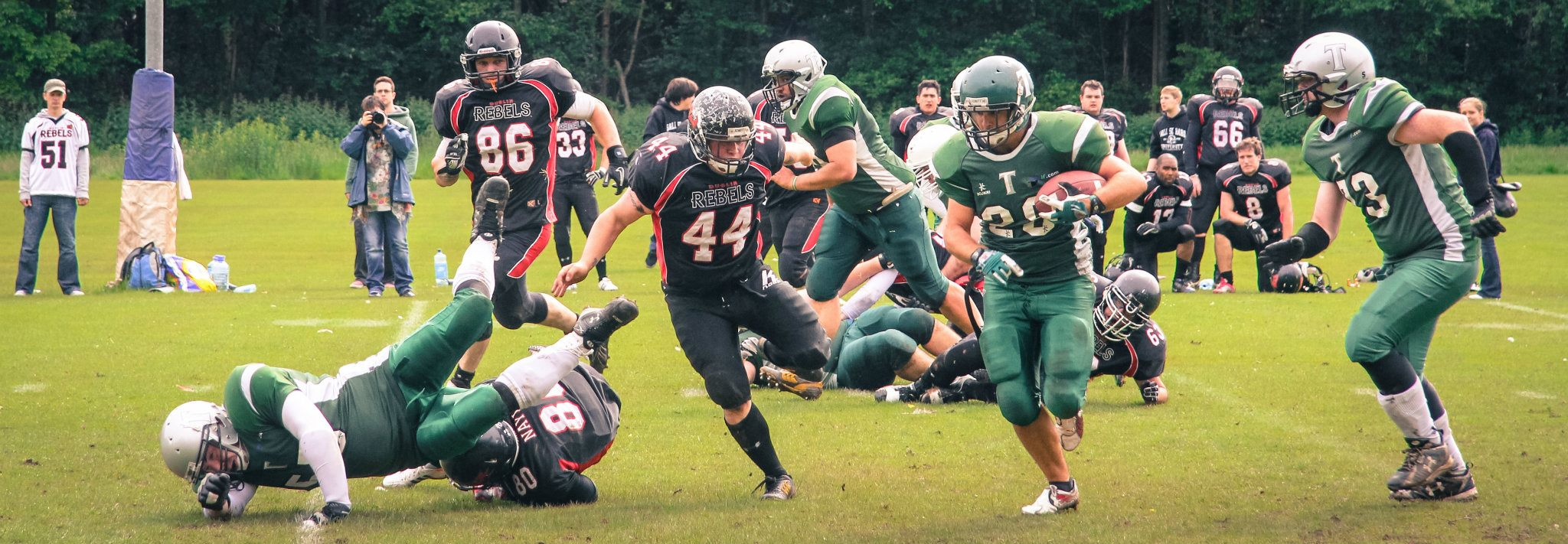 Belfast Trojans Vs Dublin Rebels 2012